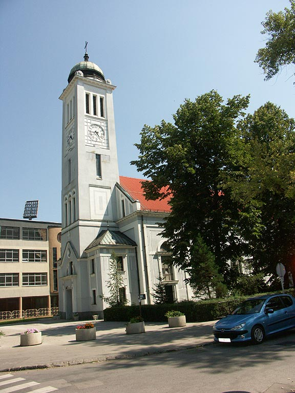 St. Elijah Roman Catholic church in Zenica